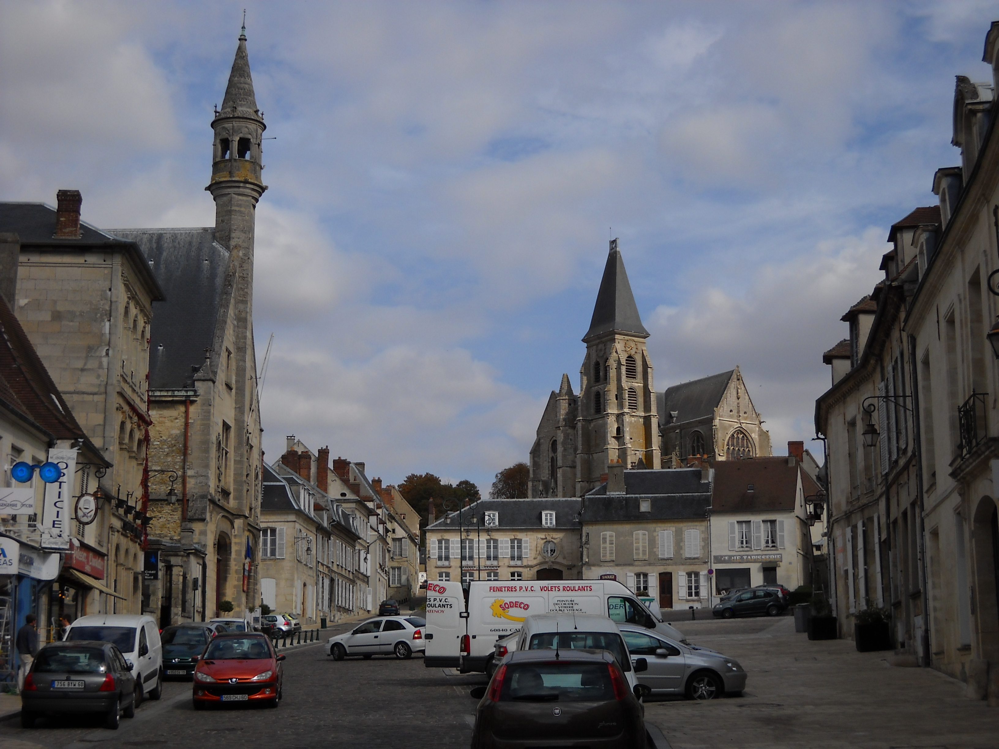 The town hall square of Clermont, Oise, France.